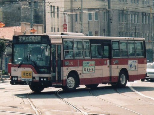 Hakodate City Bus 192 Mitsubishi P-MP218M at Jujigai